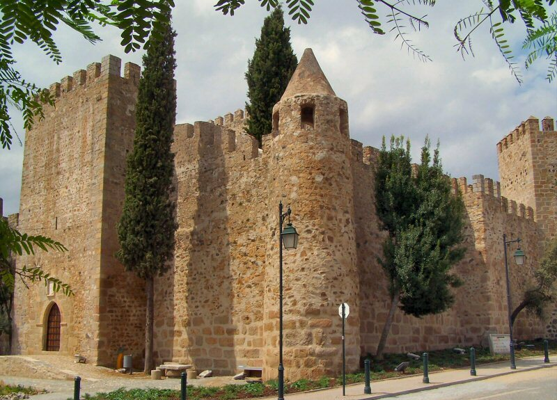 Alter do Chão is a municipality in Portugal with a total area of 362.0 km² and a total population of 3,666 inhabitants. The municipality is composed of 4 parishes, and is located in the District of Portalegre.